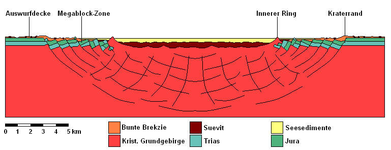 Nördlinger Ries, geologic profile. Labeling in German. Simplified, schemtic profile based on the references listed below.